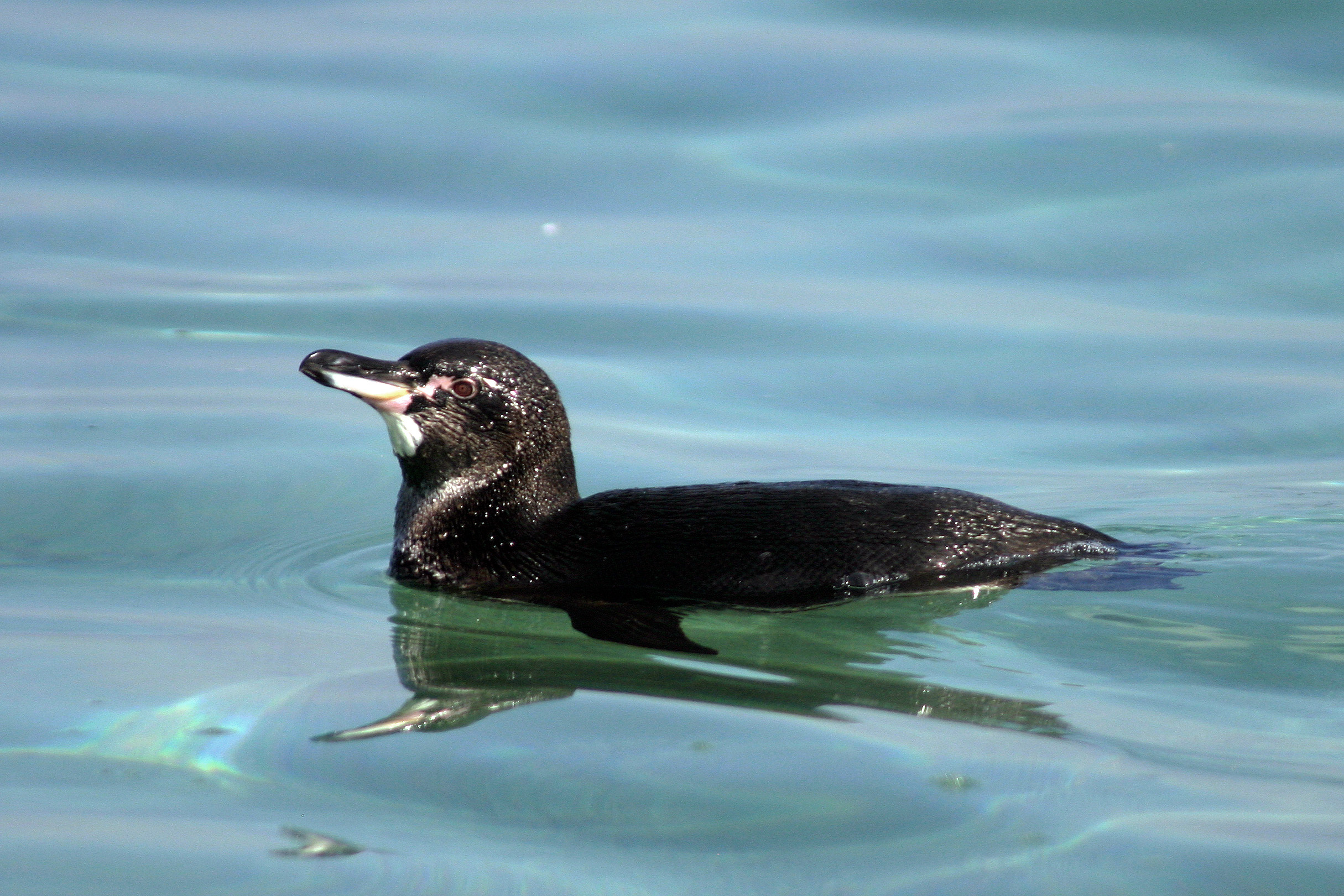 Male adult Galápagos penguin (Spheniscus mendiculus) swimming on Isabela Island off Moreno Point, Galapagos Islands.